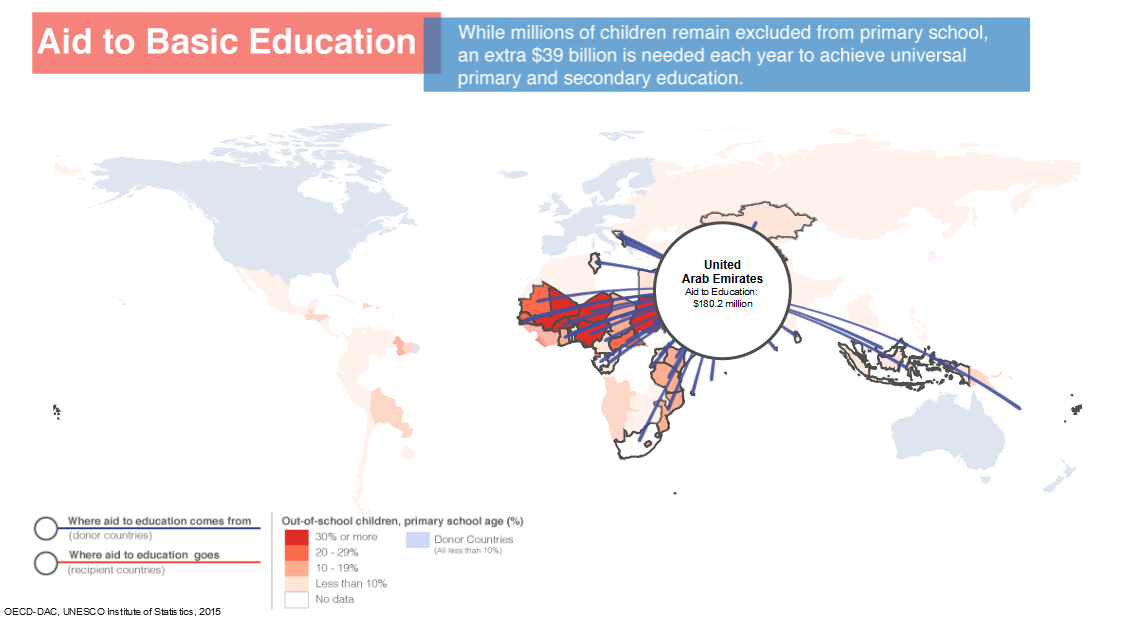 Aid to Basic Education. While millions of children remain excluded from primary school, an extra $39 billion is needed each year to achieve universal primary and secondary education.